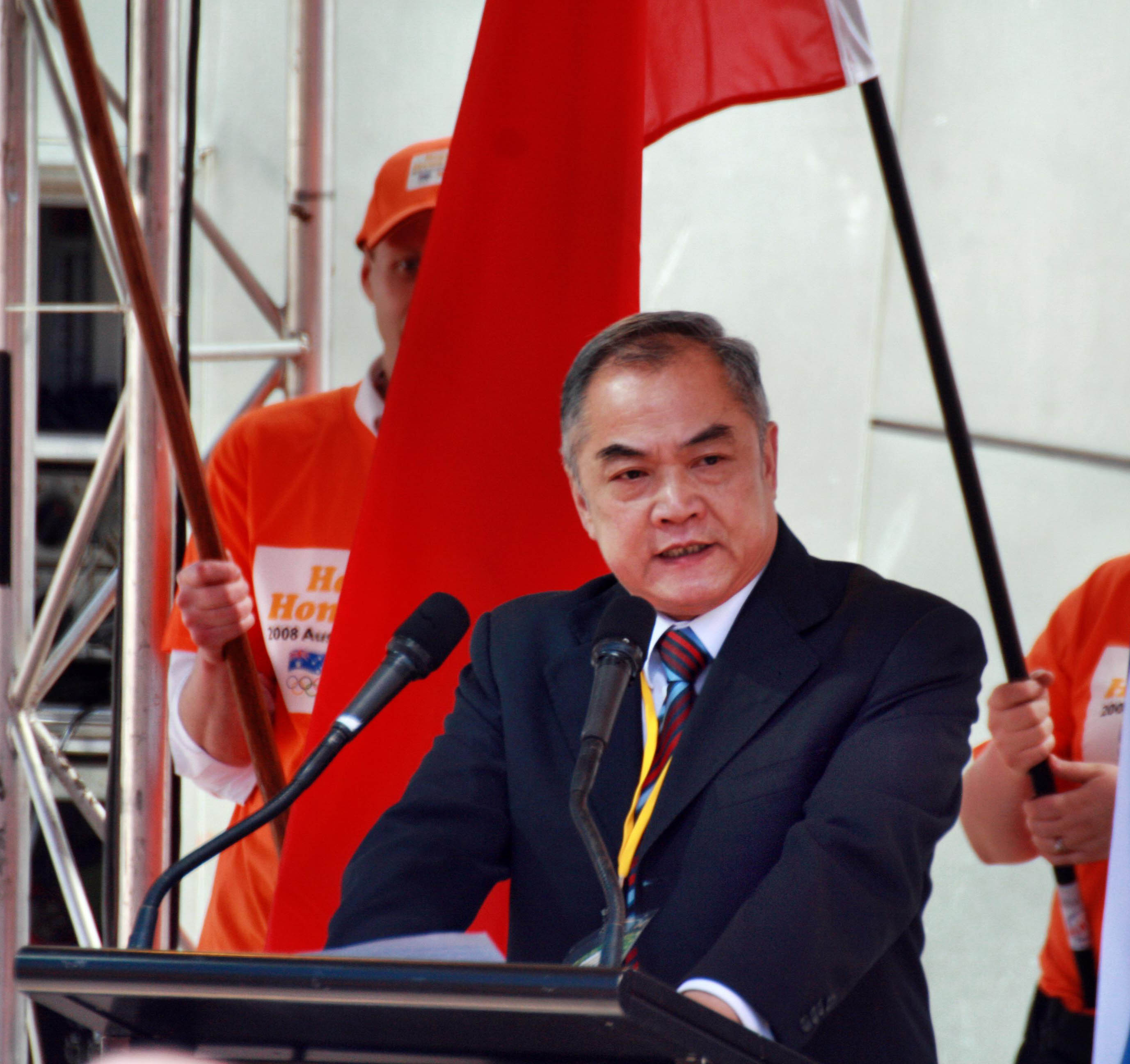 Photograph of John So, Lord Mayor of Melbourne.